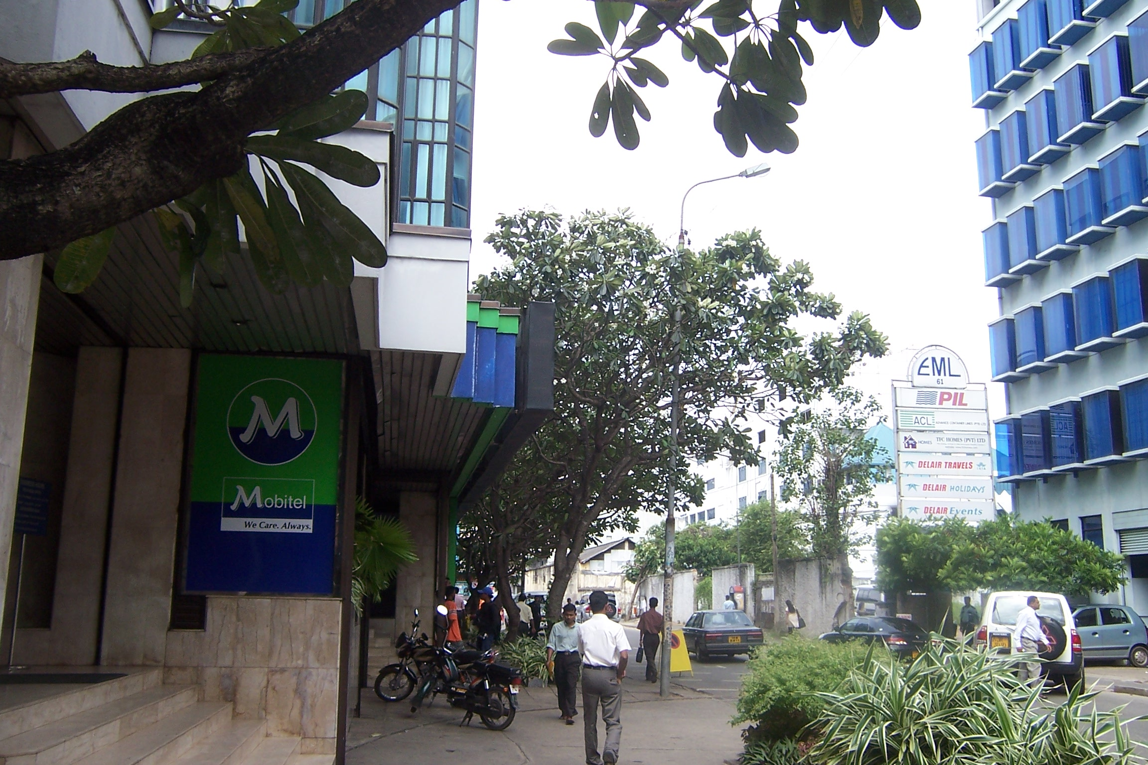 A Mobitel office entryway as seen in Colombo, Sri Lanka, in September 2006.